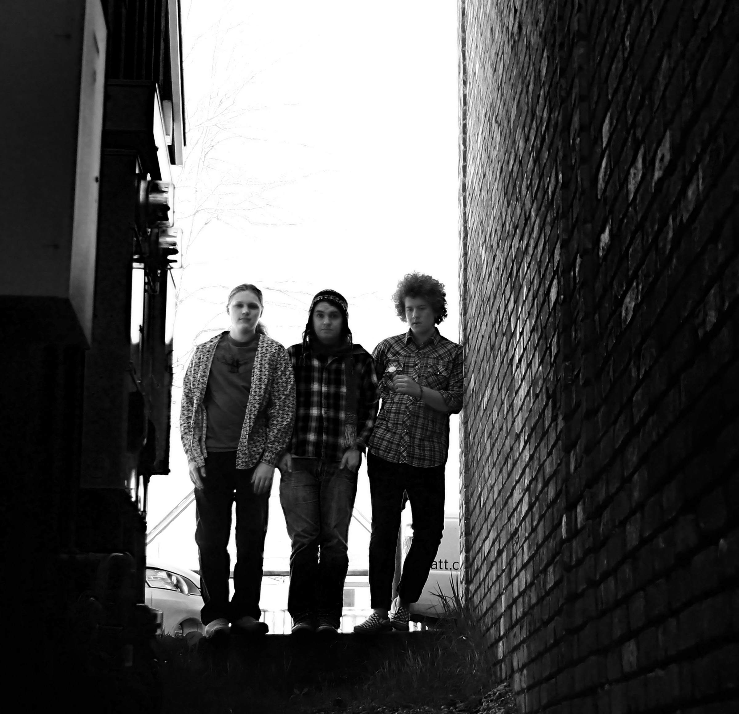 The Shreds